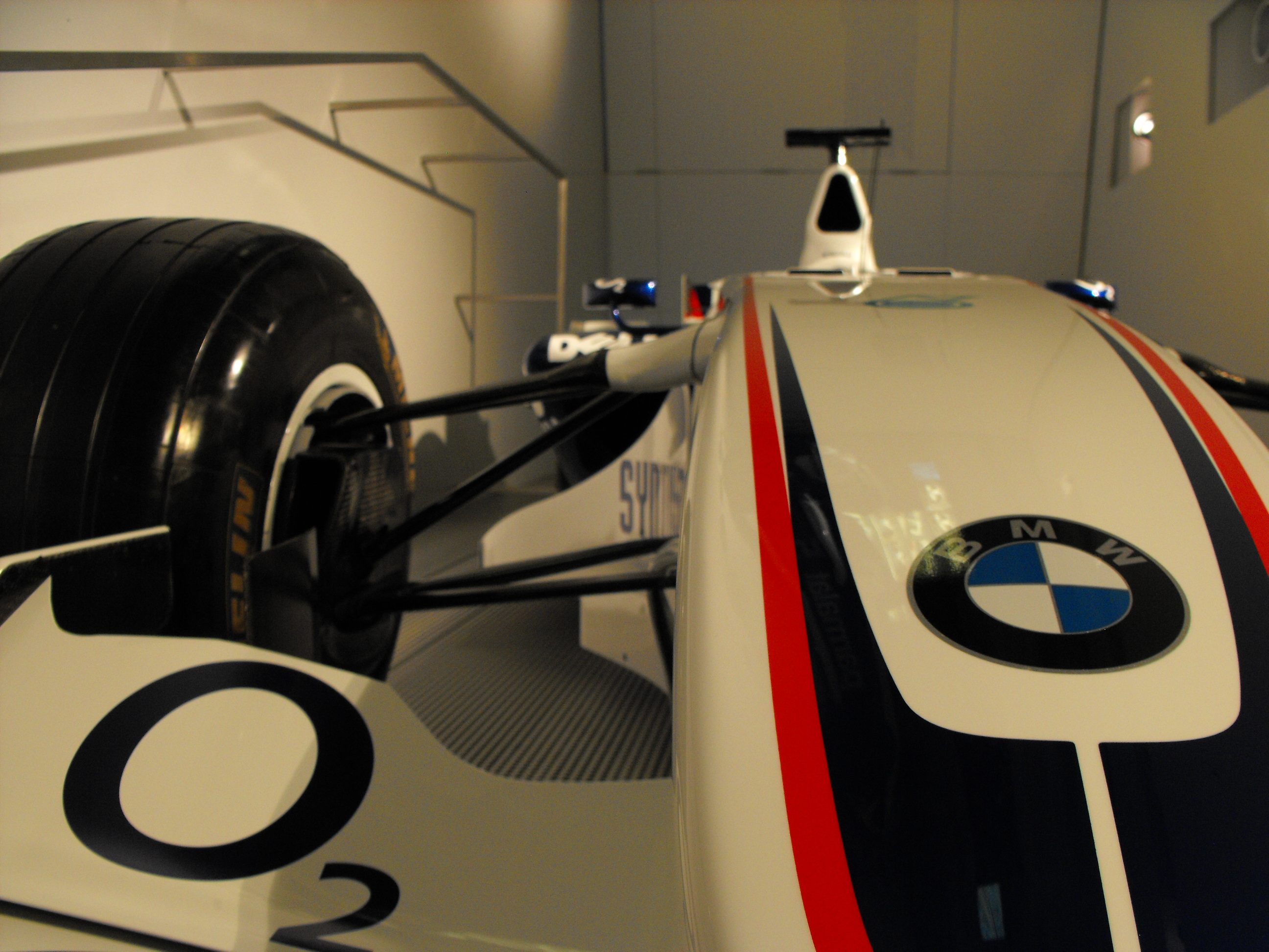 BMW Sauber F1, Munchen, Germany